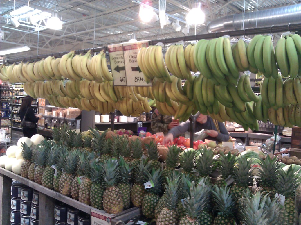 A display of organic and conventional bananas, among other produce, in a Whole Foods Market store in Charlottesville, VA.